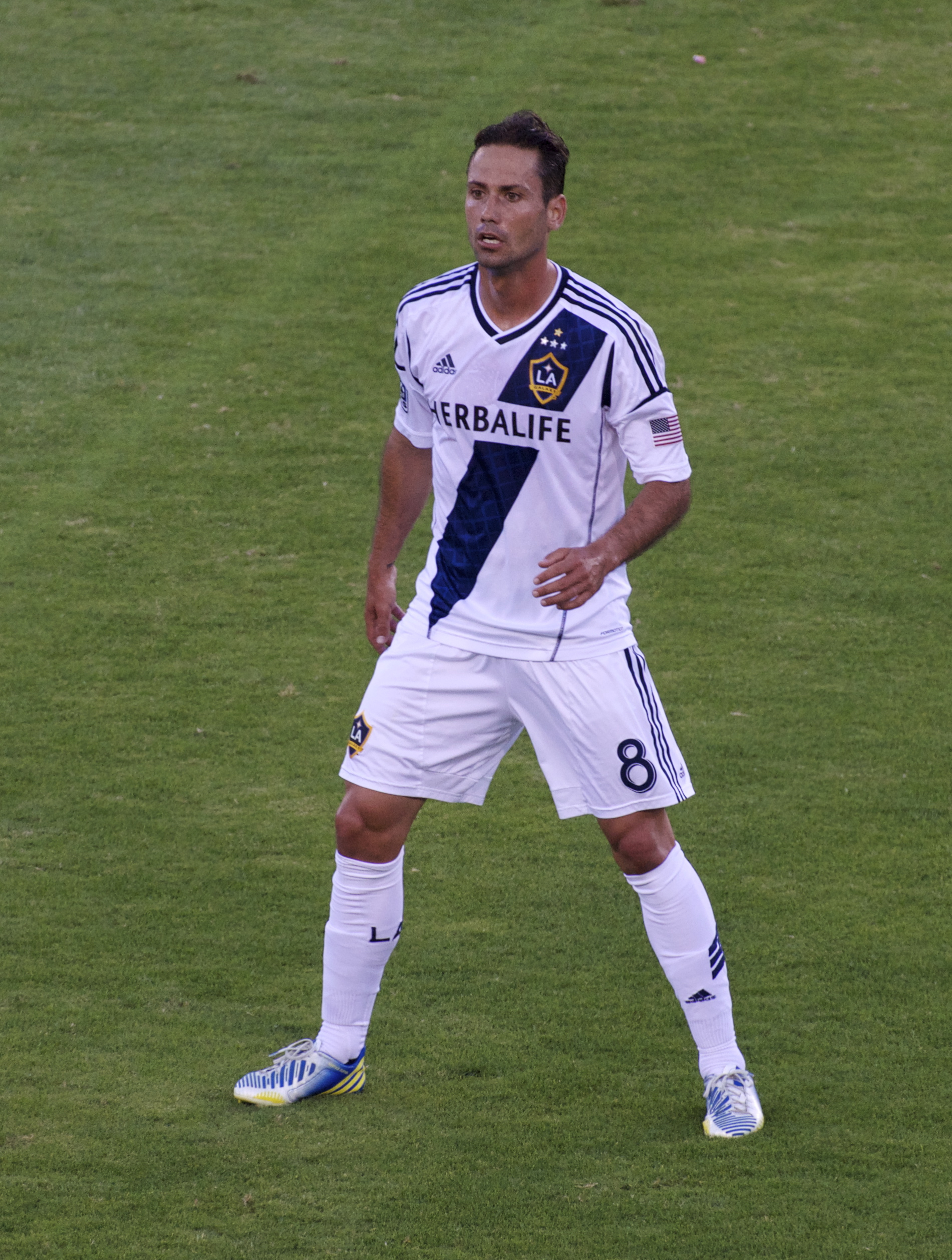 Marcelo Sarvas, Stanford Stadium, LA Galaxy vs SJ Earthquakes, Saturday 2013-06-29